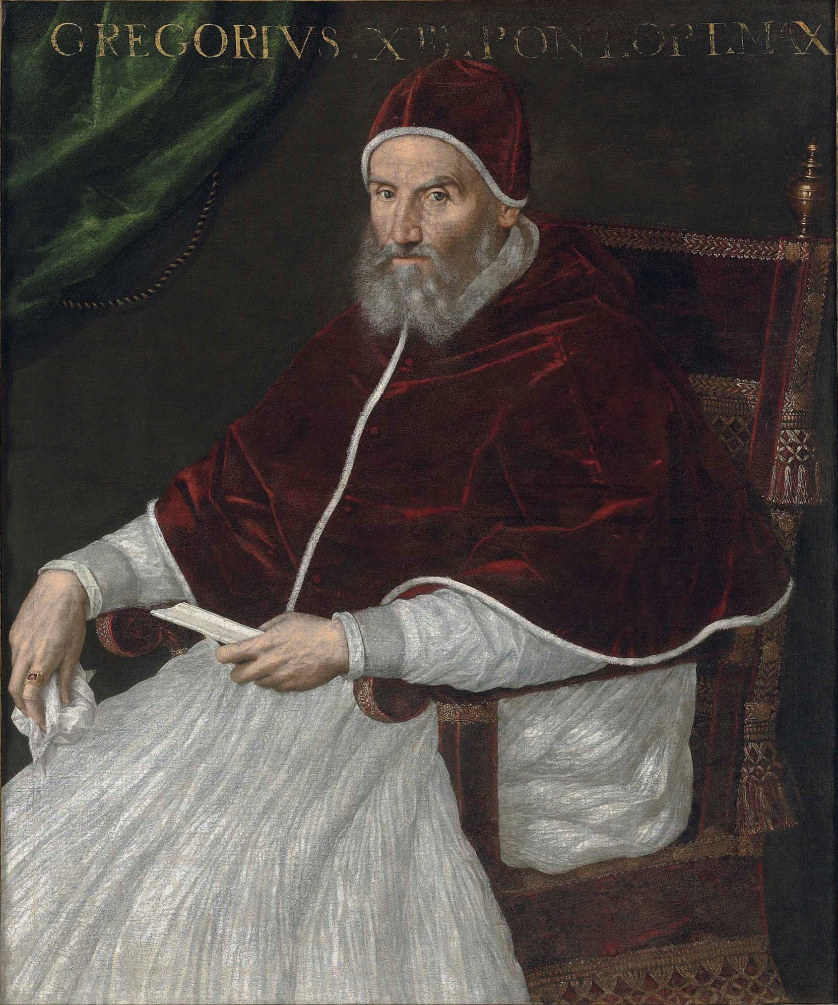 Portrait of Pope Gregory XIII (1502-1585), three-quarter-length, seat